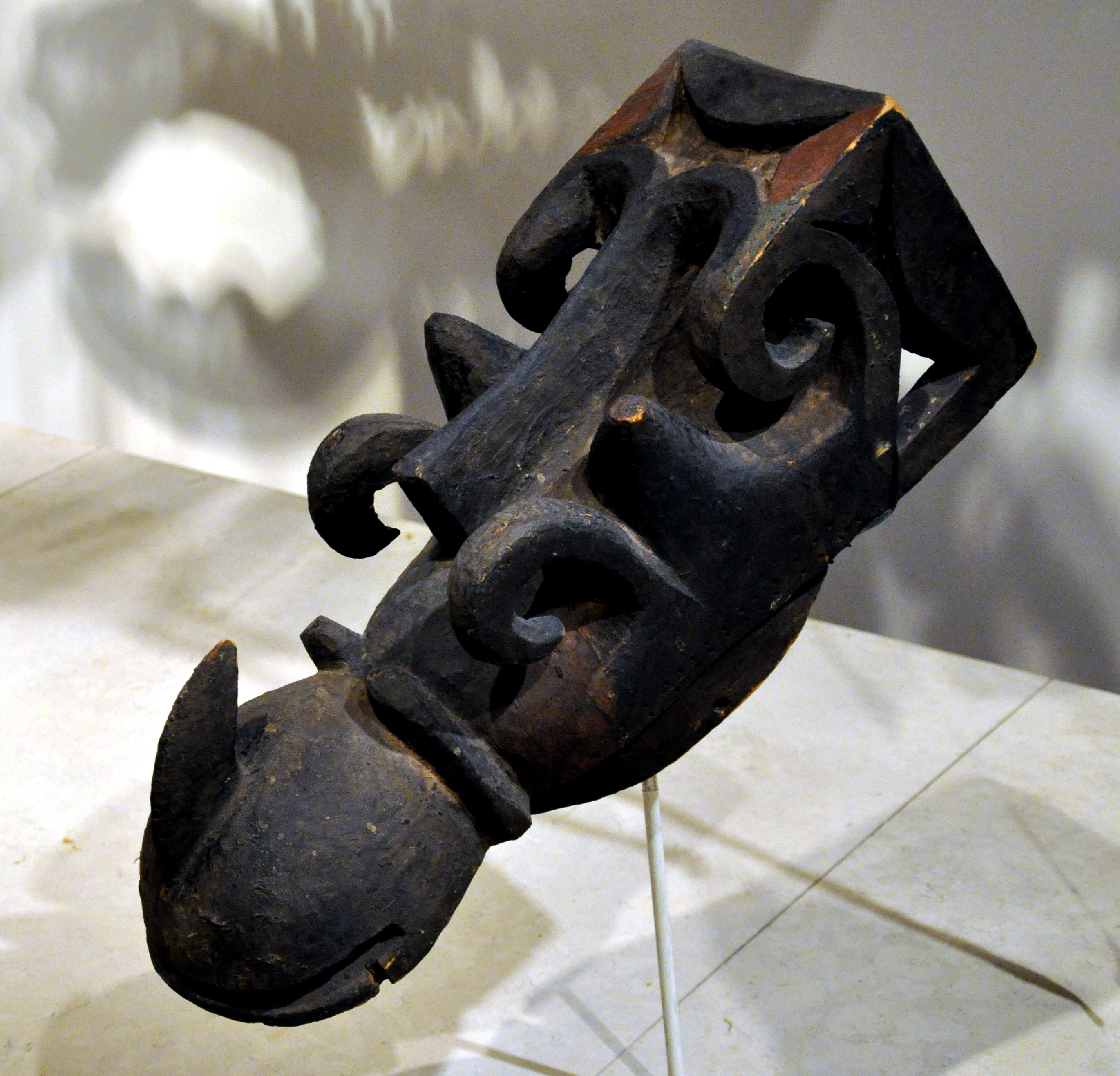 British Museum reference Af1956,27.230 Detailed description Mask (hippopotamus masquerade), Abua people, NIgeria, 19th century Location Room 25